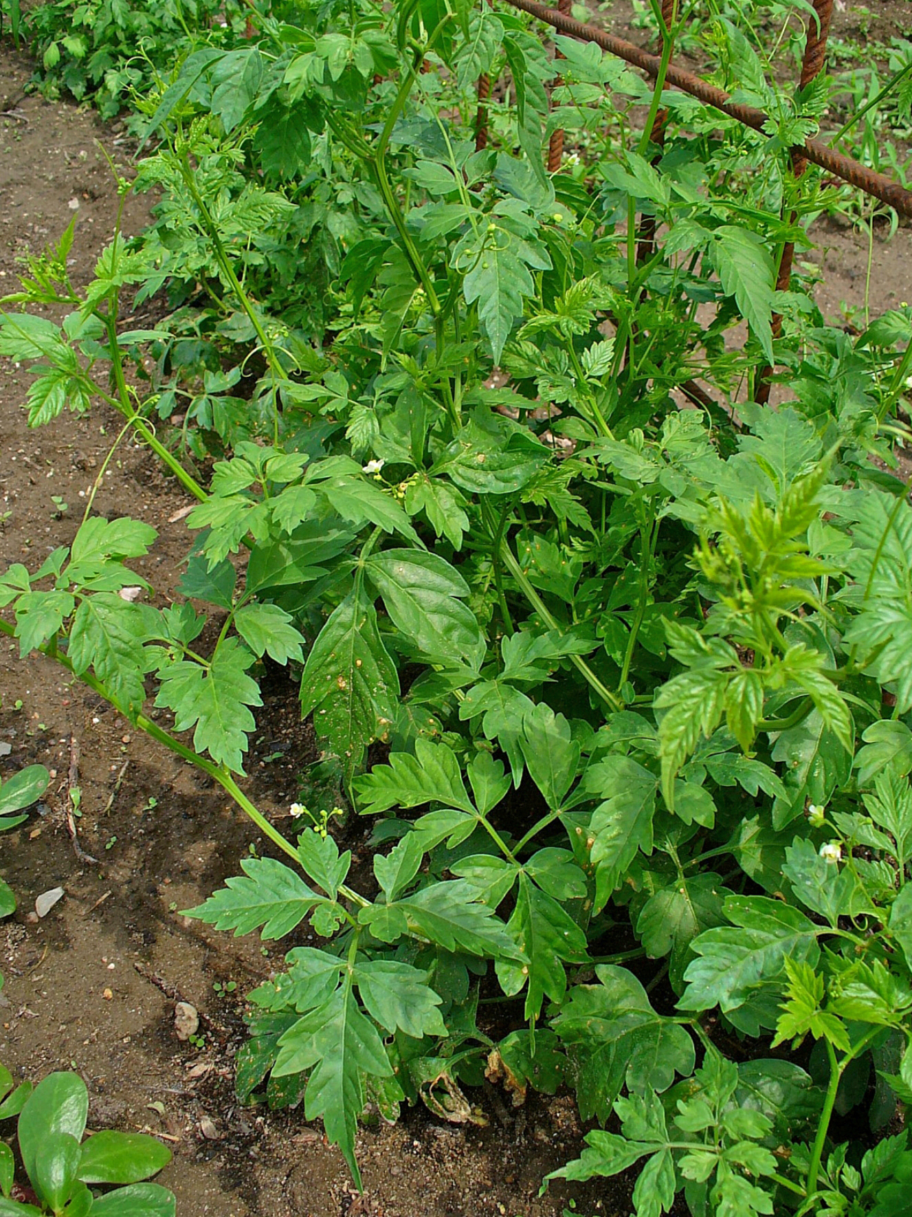 Cardiospermum halicacabum, Sapindaceae, Balloonvine, habitus; Stutensee, Germany. The blooming plants are used in homeopathy as remedy: Cardiospermum (Cardi-h.)